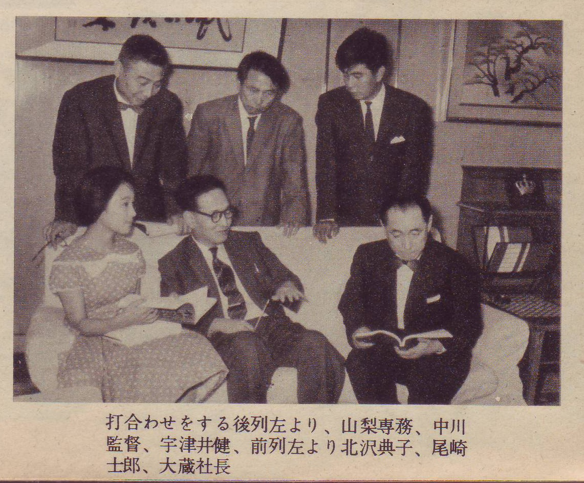 "Raiden" (Shintoho production, of the 1959 movie) production meeting.The right edge of the back of the column is Ken Utsui.The center of the back of the column is Nobuo Nakagawa.Left behind the column is Minoru Yamanashi (Senior Managing Director of Shintoho).The front row of the left Noriko Kitazawa.The front row of the center Shiro Ozaki.Front row of the right Mitsugi Okura (President of Shintoho).